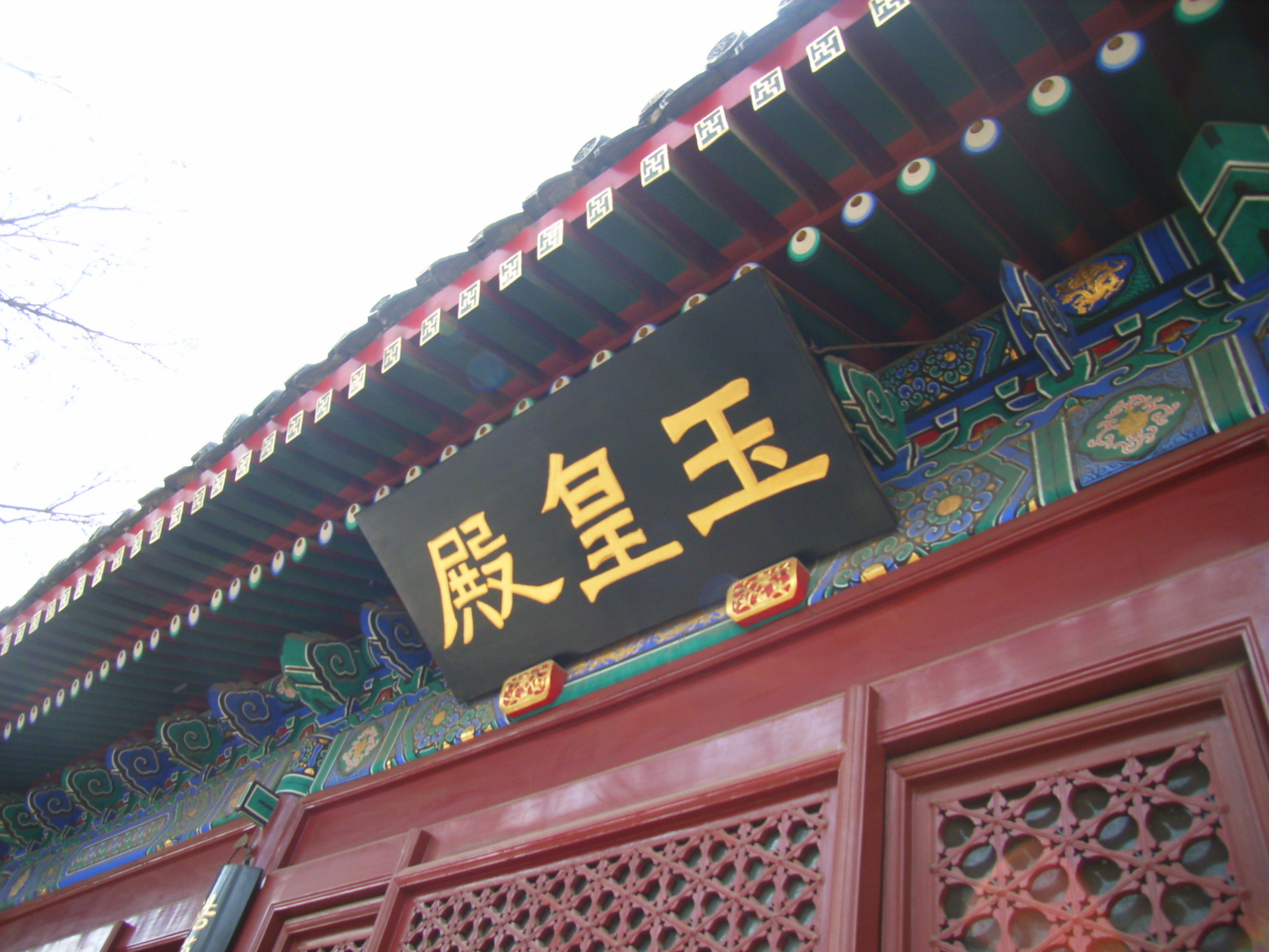 The Jade Star Hall (玉星殿, Yu Xing Dian) in the White Cloud Temple in Beijing